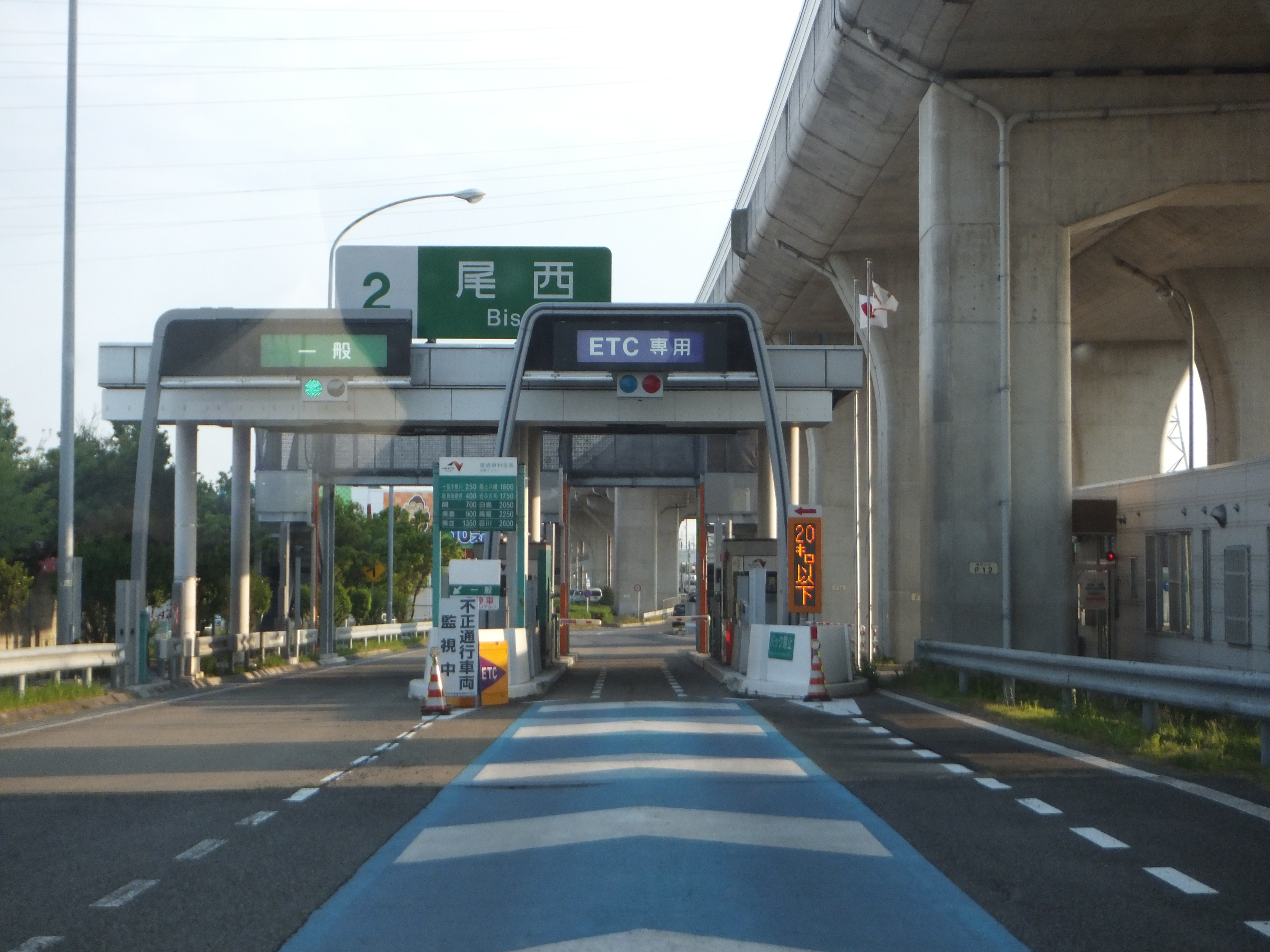 Bisai Interchange on the Tokai-Hokuriku Expressway